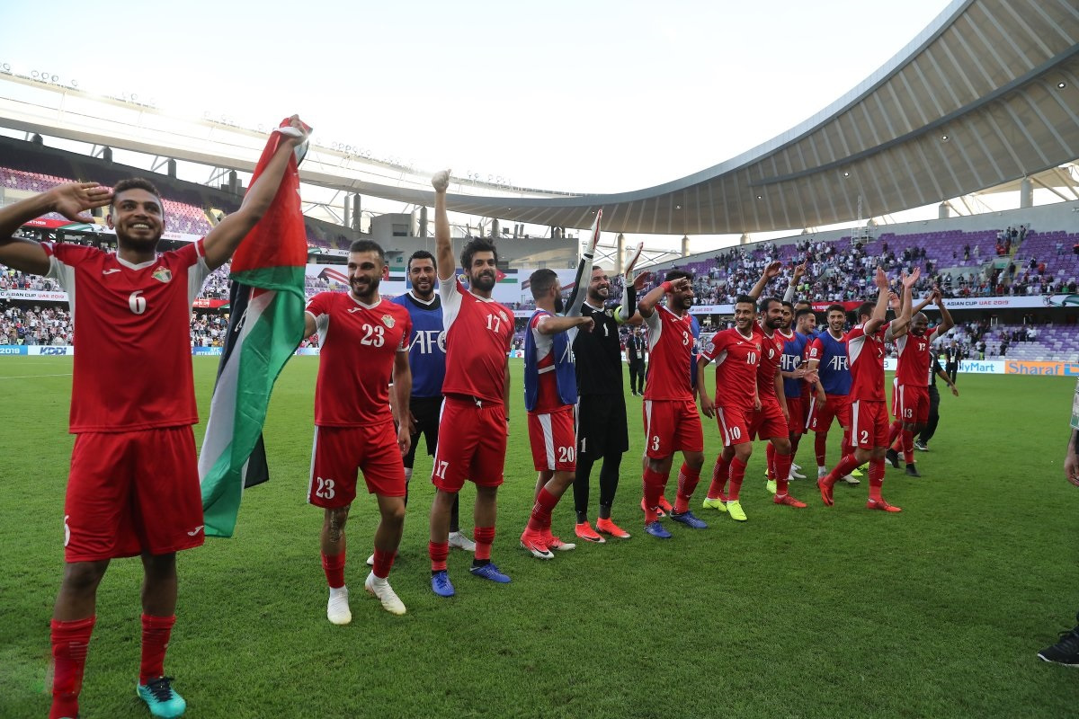 Australia & Jordan Group B match, 2019 AFC Asian Cup